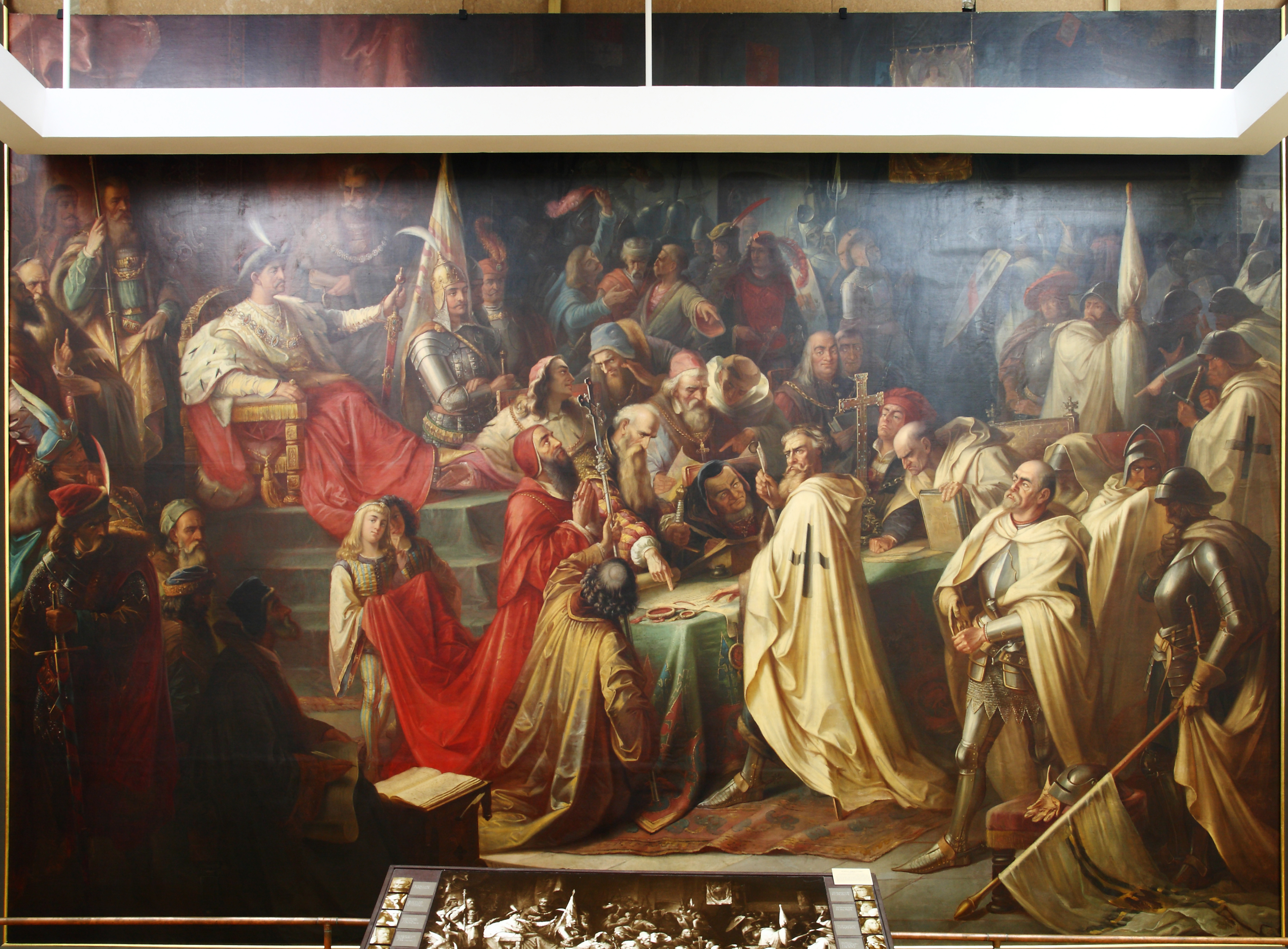 Second Peace of Thorn on the Marian Jaroczyński painting (1873).